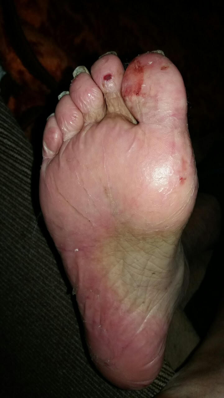 Foot on capecitabine (right) Srpskohrvatski / српскохрватски: Akralni eritem stopala uzrokovan kapecitabinom (desno stopalo)